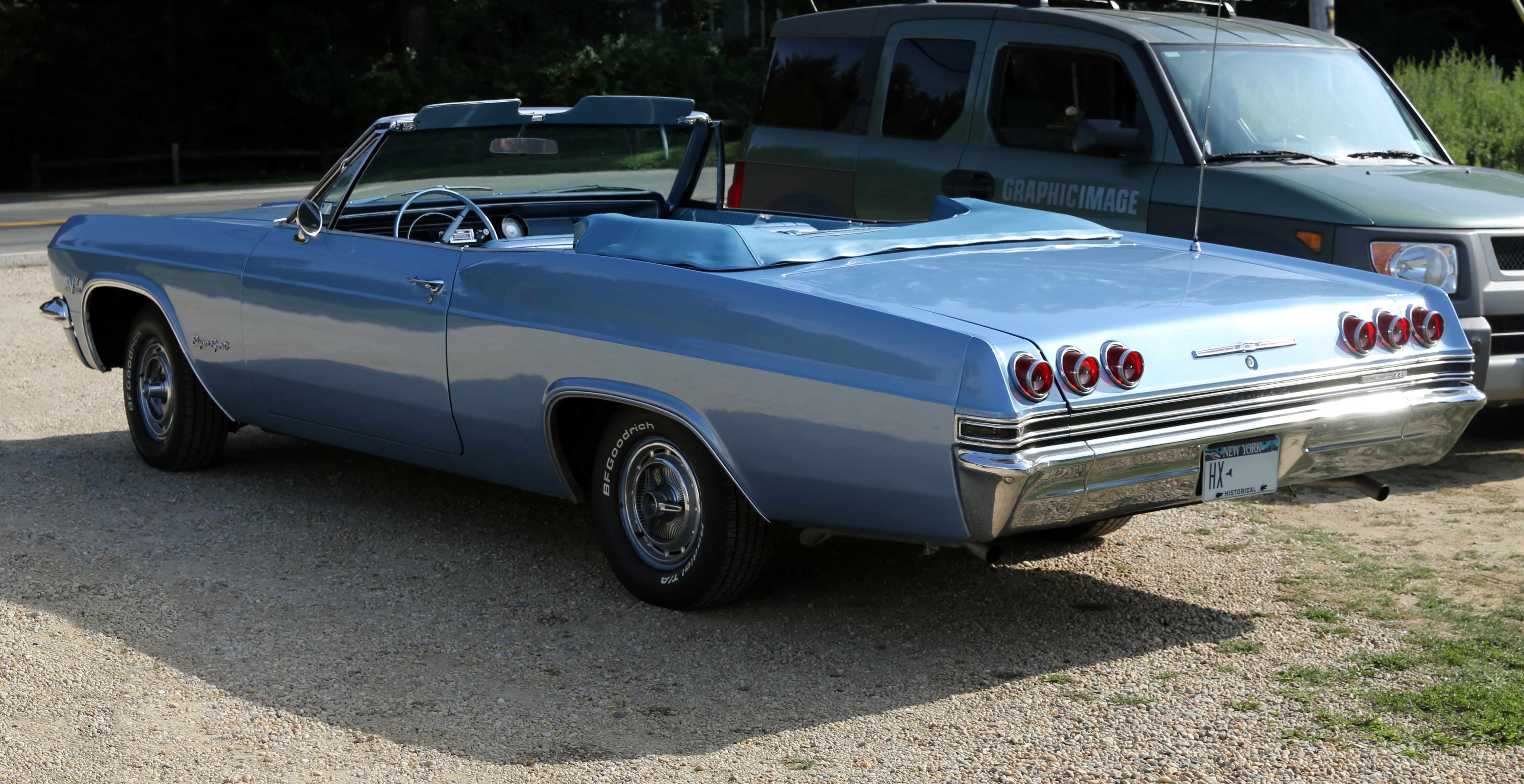 1965 Chevrolet Impala SS Convertible in Amagansett, NY. 396 Turbo-Jet V8, mint condition.